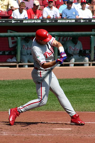 Pat Burrell, Philadelphia Phillies, 2004, by Rick Dikeman 10:50, 16 September 2004 . . Rdikeman . . 400×600 (62,885 bytes)